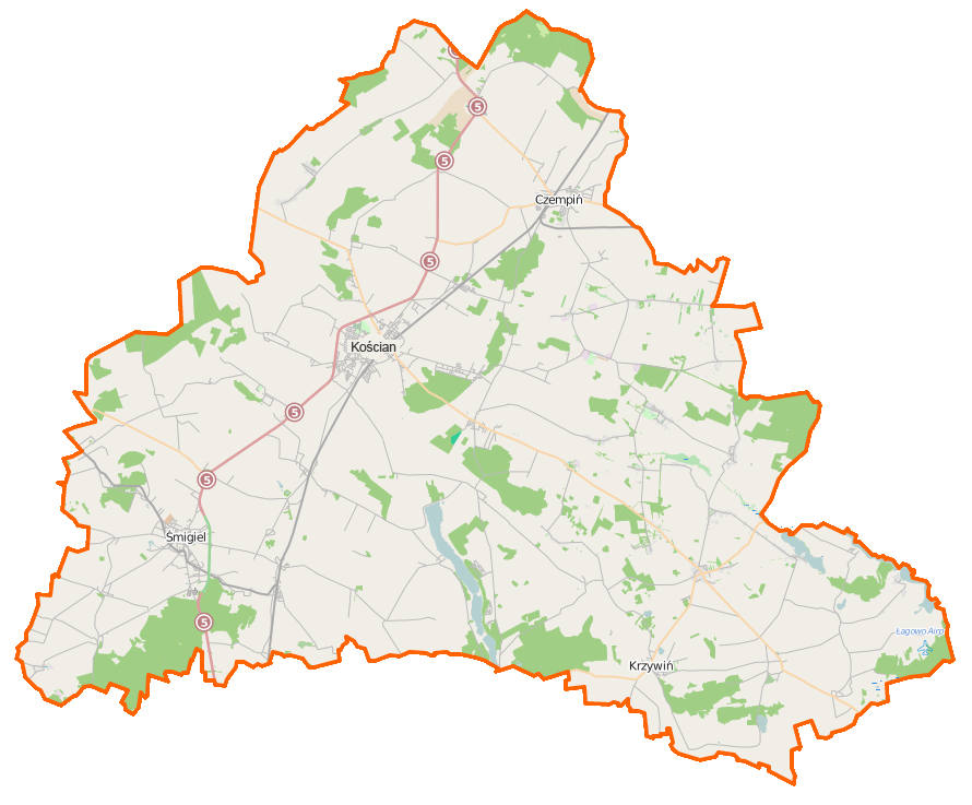 Map of Powiat kościański, Poland This map of Powiat kościański was created from OpenStreetMap project data, collected by the community. This map may be incomplete, and may contain errors. Don't rely solely on it for navigation. Border coordinates52.220216.4101←↕→17.021551.9087